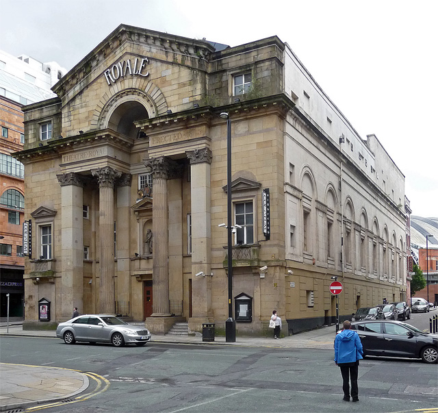 A distinguished composition with a portico of mighty Corinthian columns crowned by an elegant arch. Pevsner describes it as "one of the best examples of theatre architecture surviving anywhere in England from the first half of the C19". It was built in 1845 to the designs of Irwin & Chester. Grade II listed.